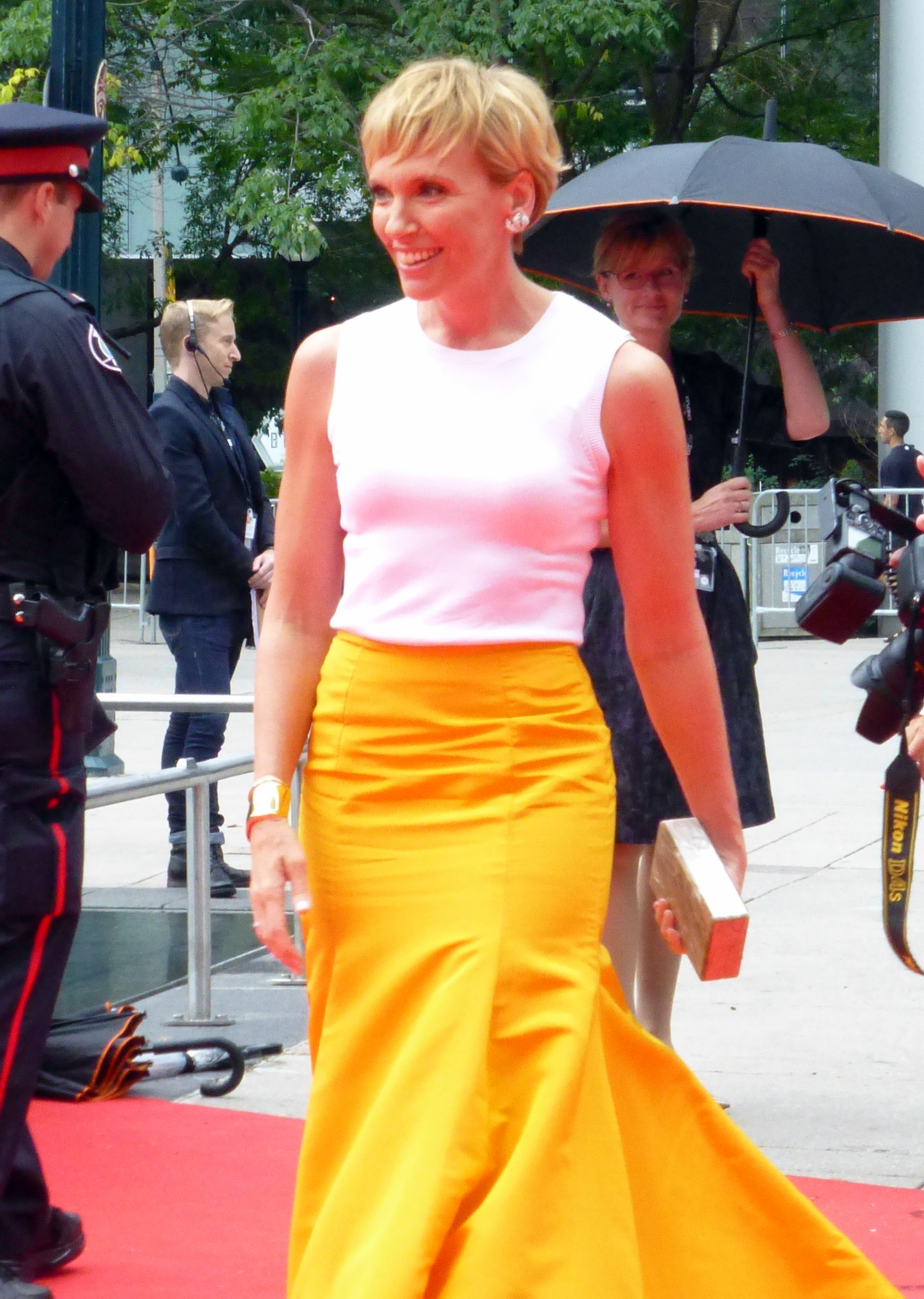 Toni Collette at the premiere of Miss You Already, 2015 Toronto Film Festival